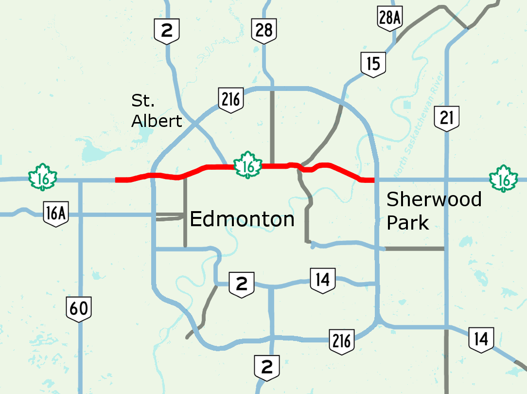 Created with OpenStreetMap